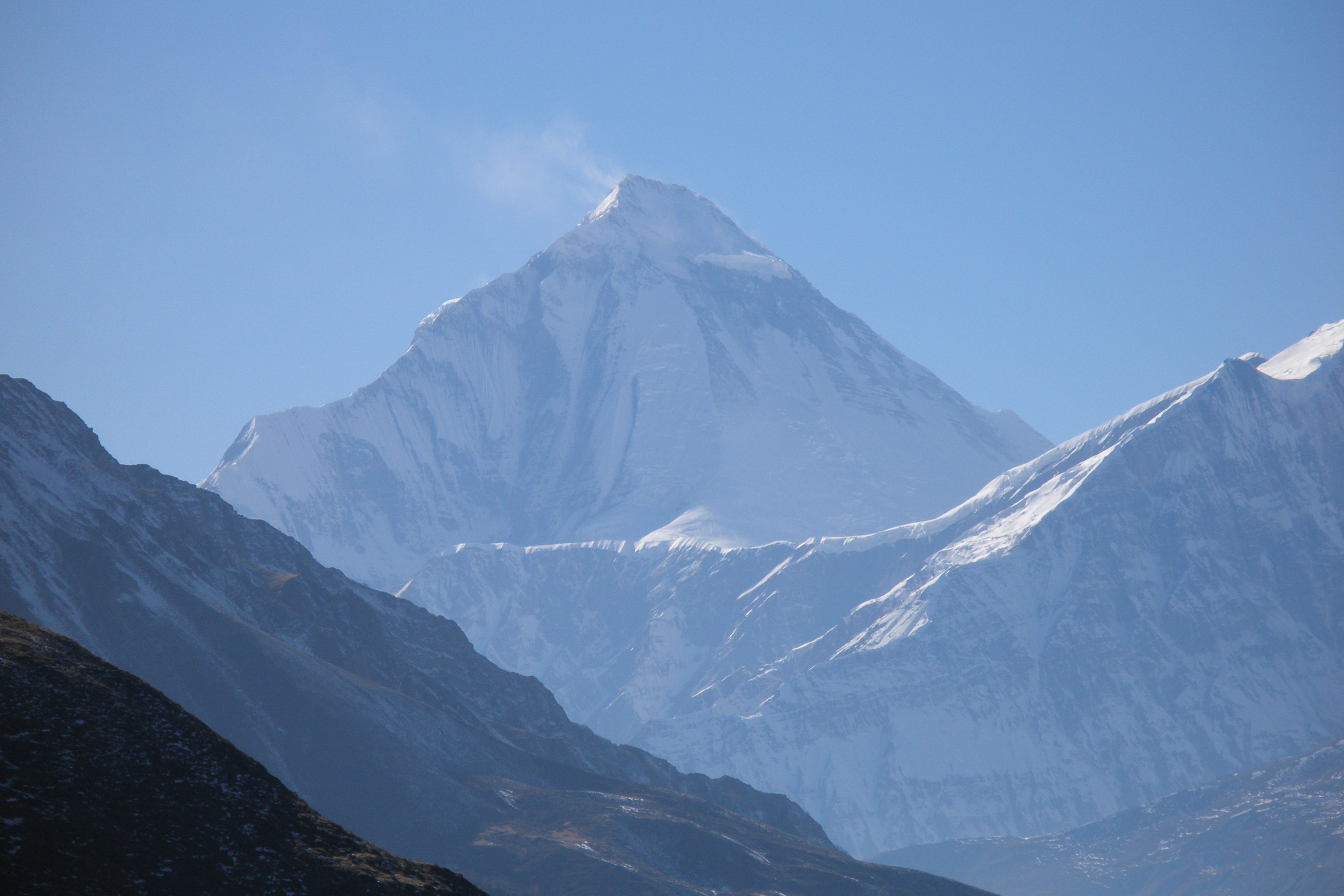 Dhaulagri I (8167 m) from north east. Southeast ridge on the left, north west ridge on the right. East face, northeast ridge (standard route) and north face between them.